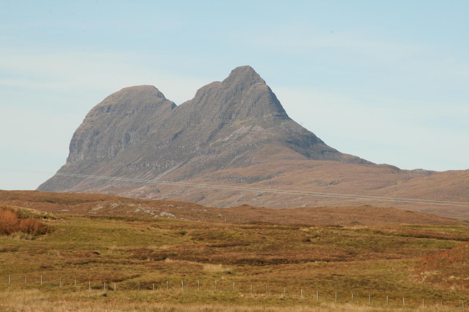 Suilven Glen Oykel approach